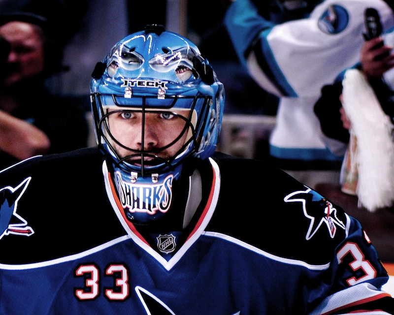 Brian Boucher